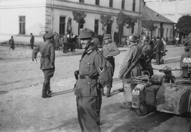 German and Russian soldiers leisurely stroll around central Sambor (Lwów Voivodeship), during the Nazi-Soviet invasion of Poland in September 1939. Their joint victory parade took place in Brześć Litewski.